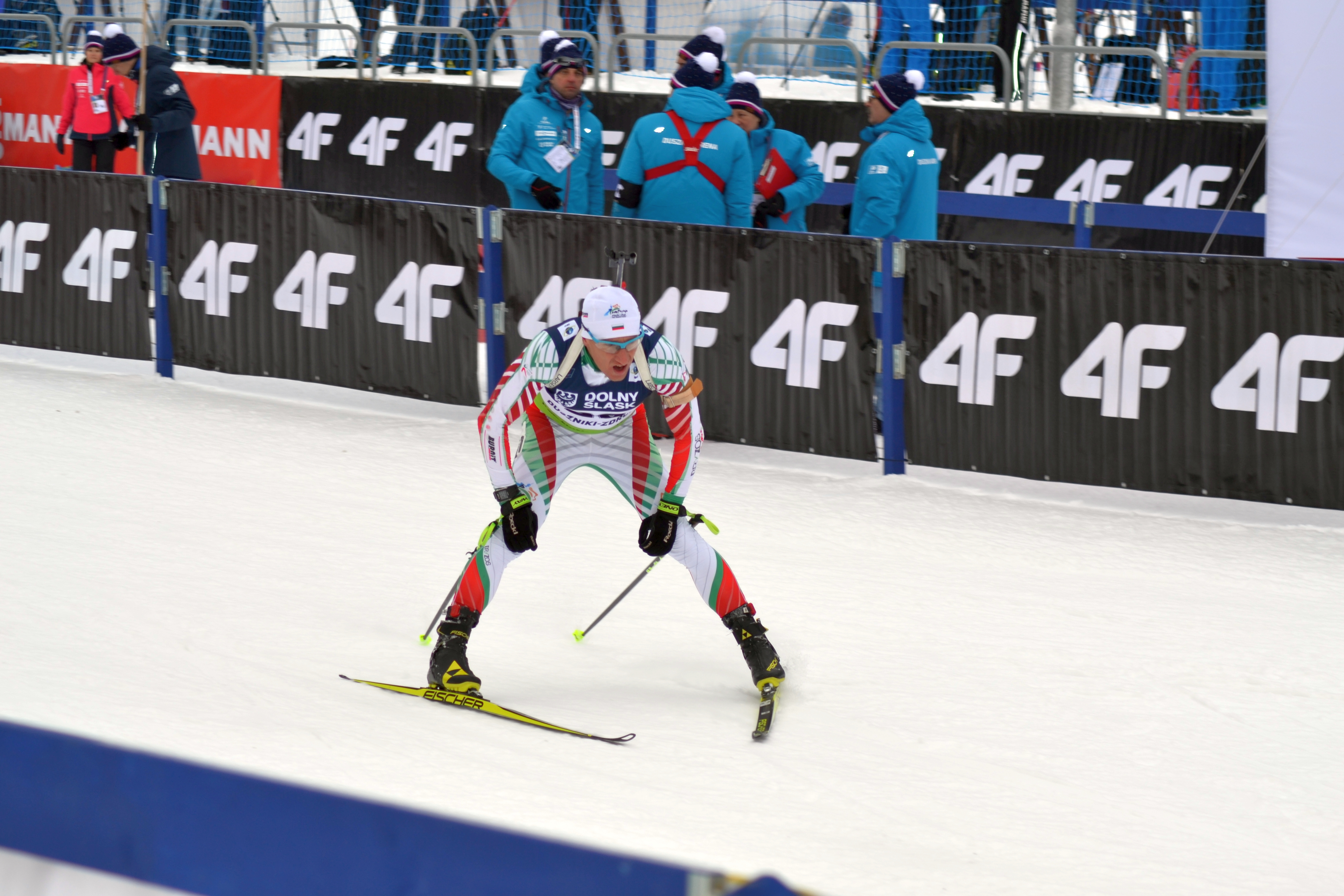 Open European Championships Biathlon 2017, Individual Men's race, held on January 25th.